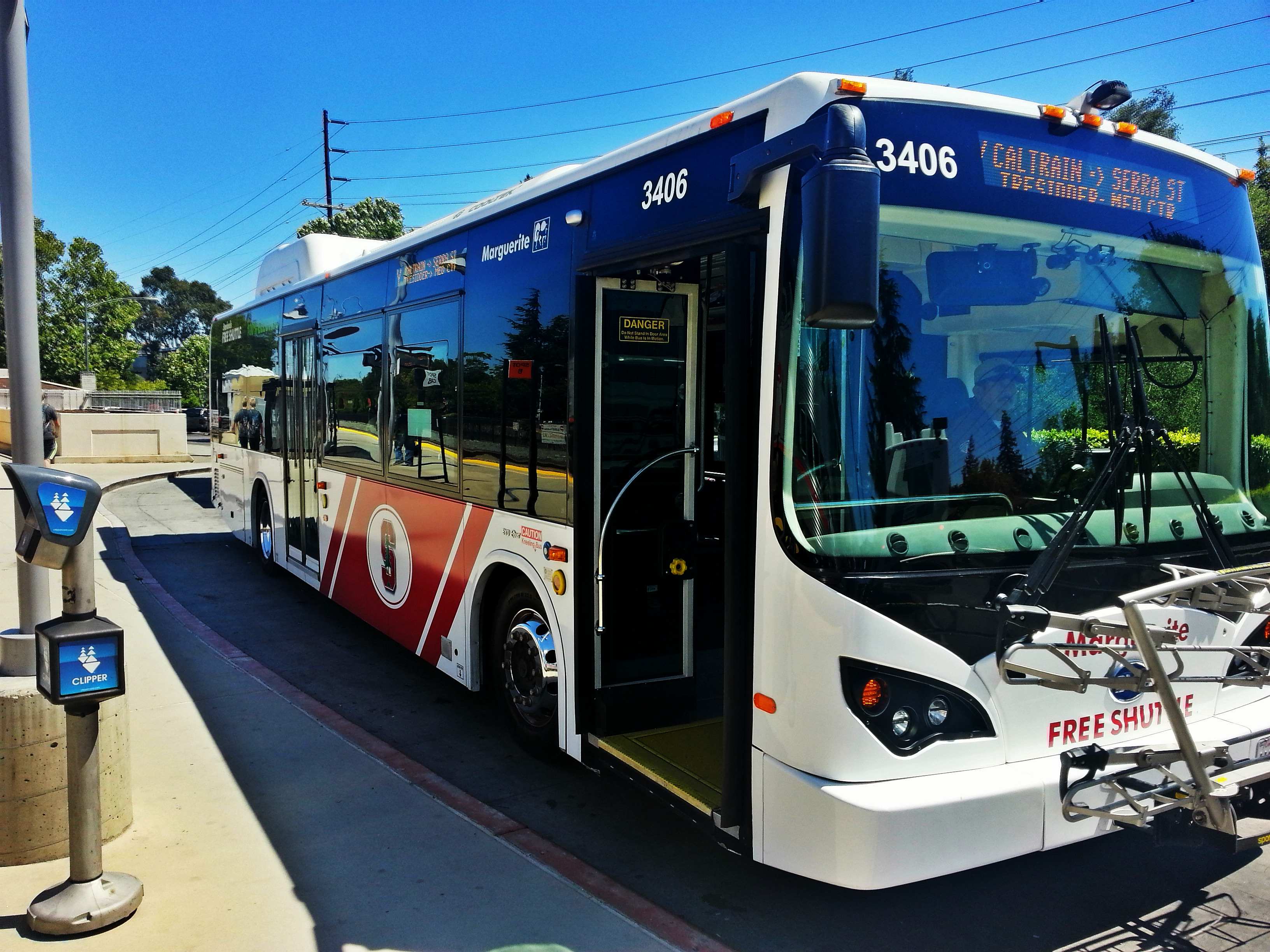 The Stanford Marguerite shuttle waiting for passengers at the Palo Alto Caltrain station